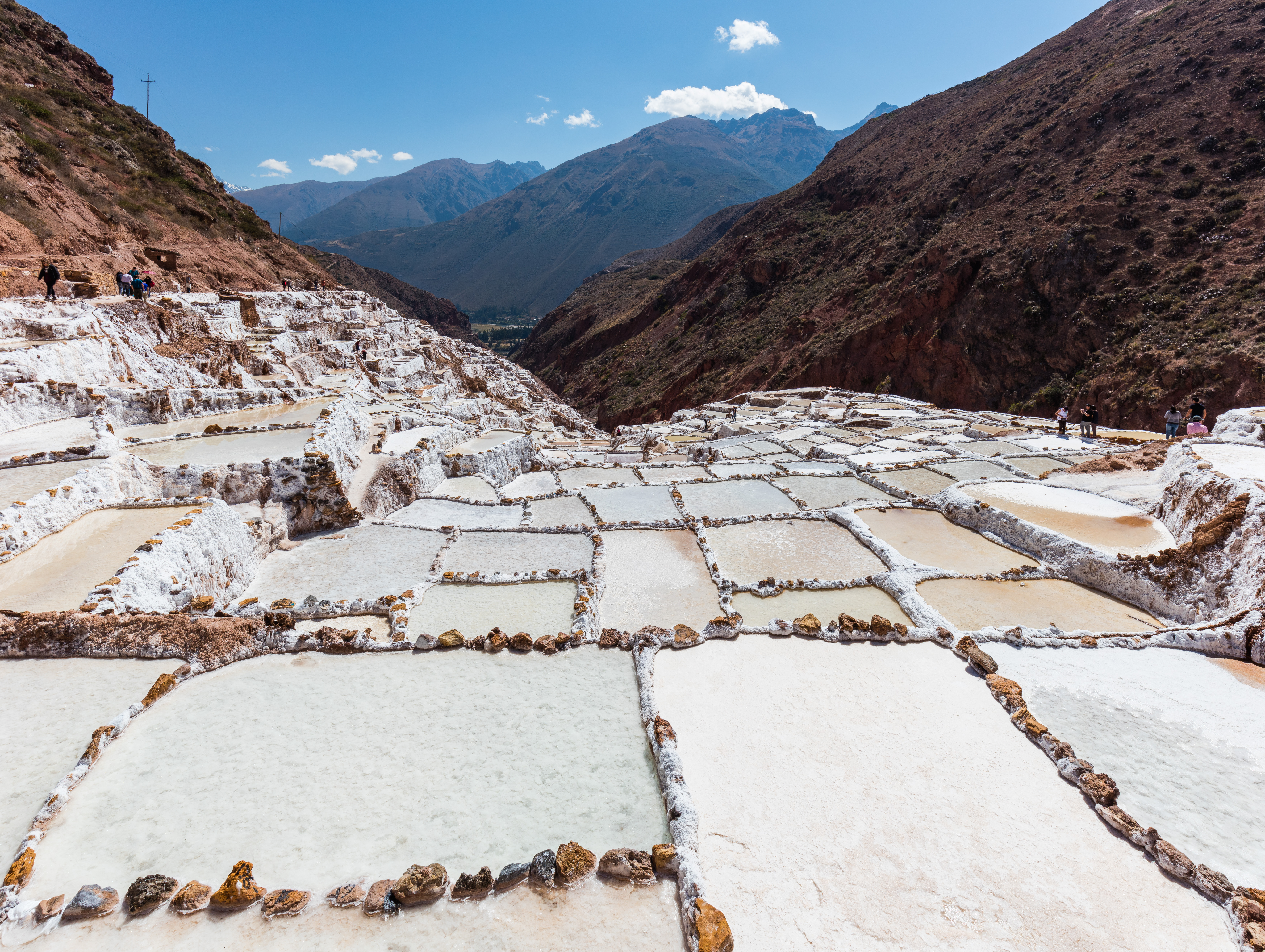 Salineras (salt evaporation ponds) in Maras, Peru. Salt has been harvested in Maras since the time of the Inca Empire. The site has around 3000 ponds of 5 square metres (54 sq ft) each. As the location is surrounded by salty mountains, subterrean water deposits the salty water in the ponds; the water evaporates due to the exposure to the sun. After approx. 1 month the level of salt reaches 10 centimetres (3.9 in) and is removed in sacks.